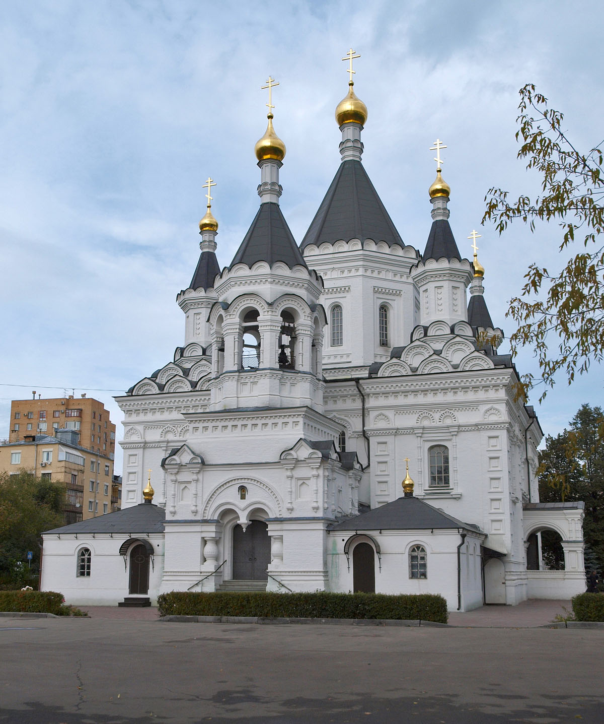 Church of Archangel Michael of the former Moscow University medical clinics in Devichye Pole